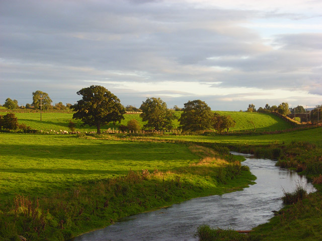 The River Petteril Looking upstream from Kitchenhill Bridge.